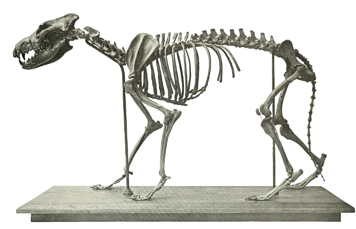 Dire wolf skeleton